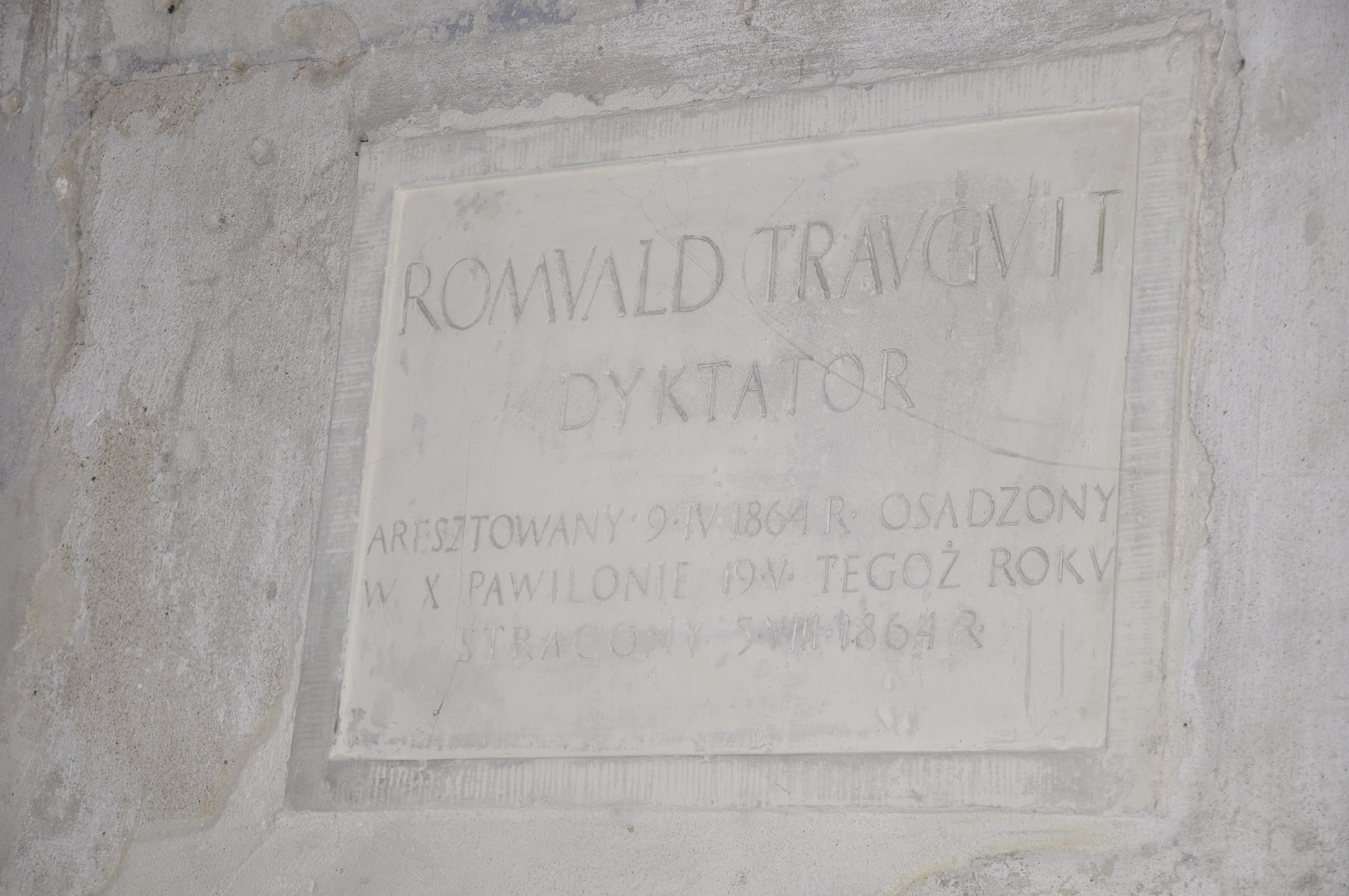 Muzeum X Pawilonu Cytadeli Warszawskiej, Traugott